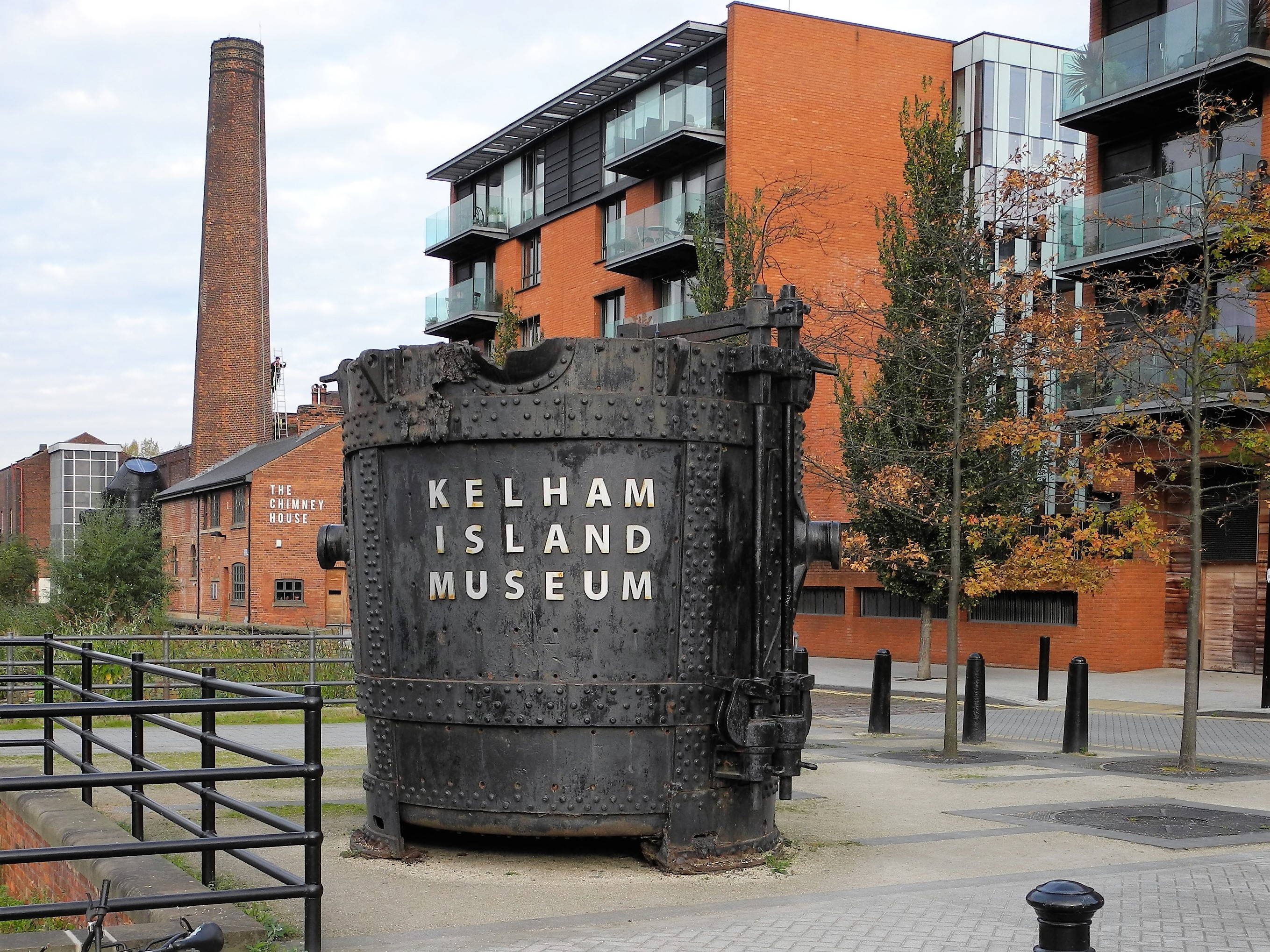 Steel ladle outside the Kelham Island Museum in Sheffield, England.